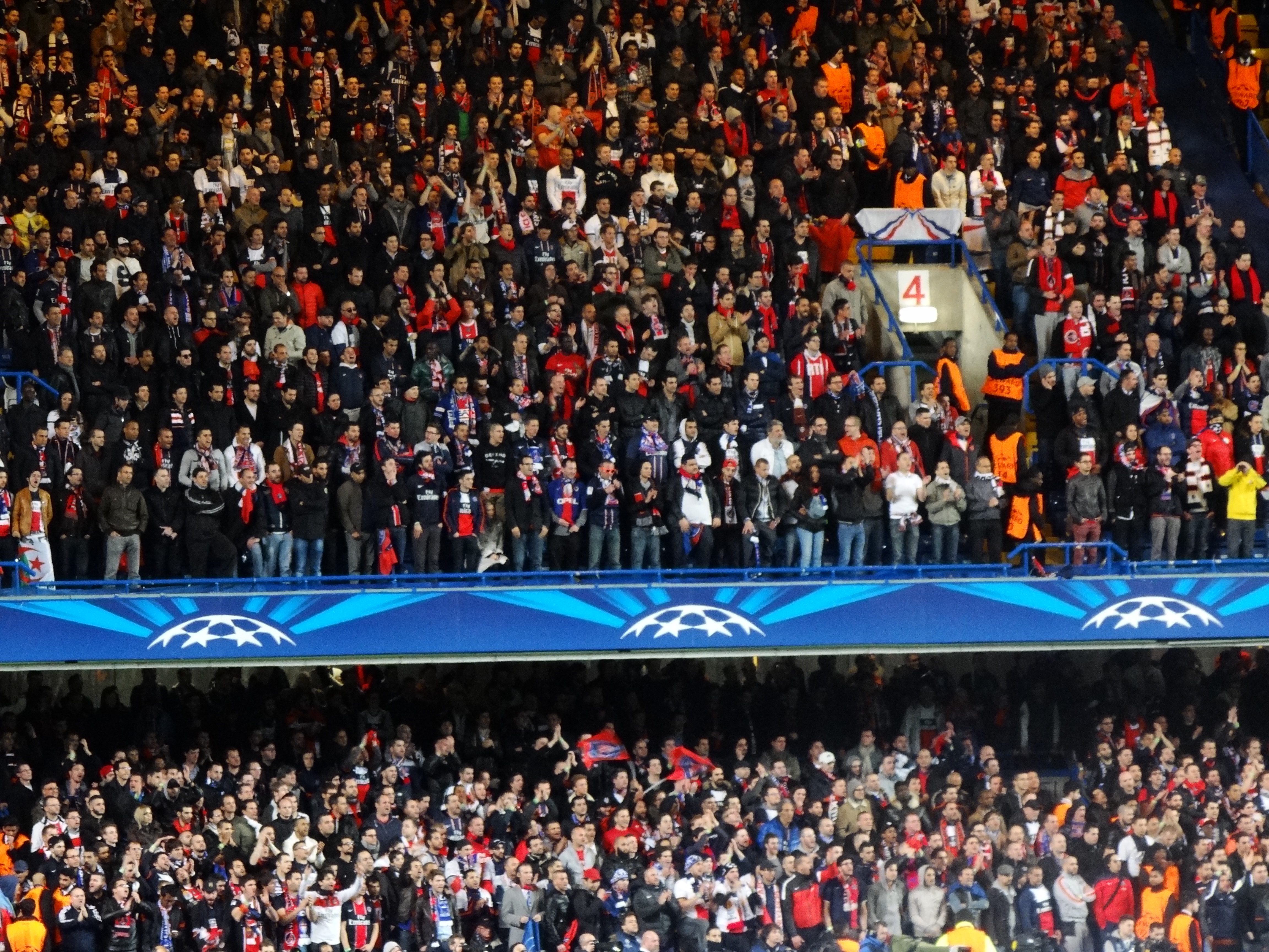 Chelsea FC v Paris Saint-Germain, 8 April 2014, Stamford Bridge, London.